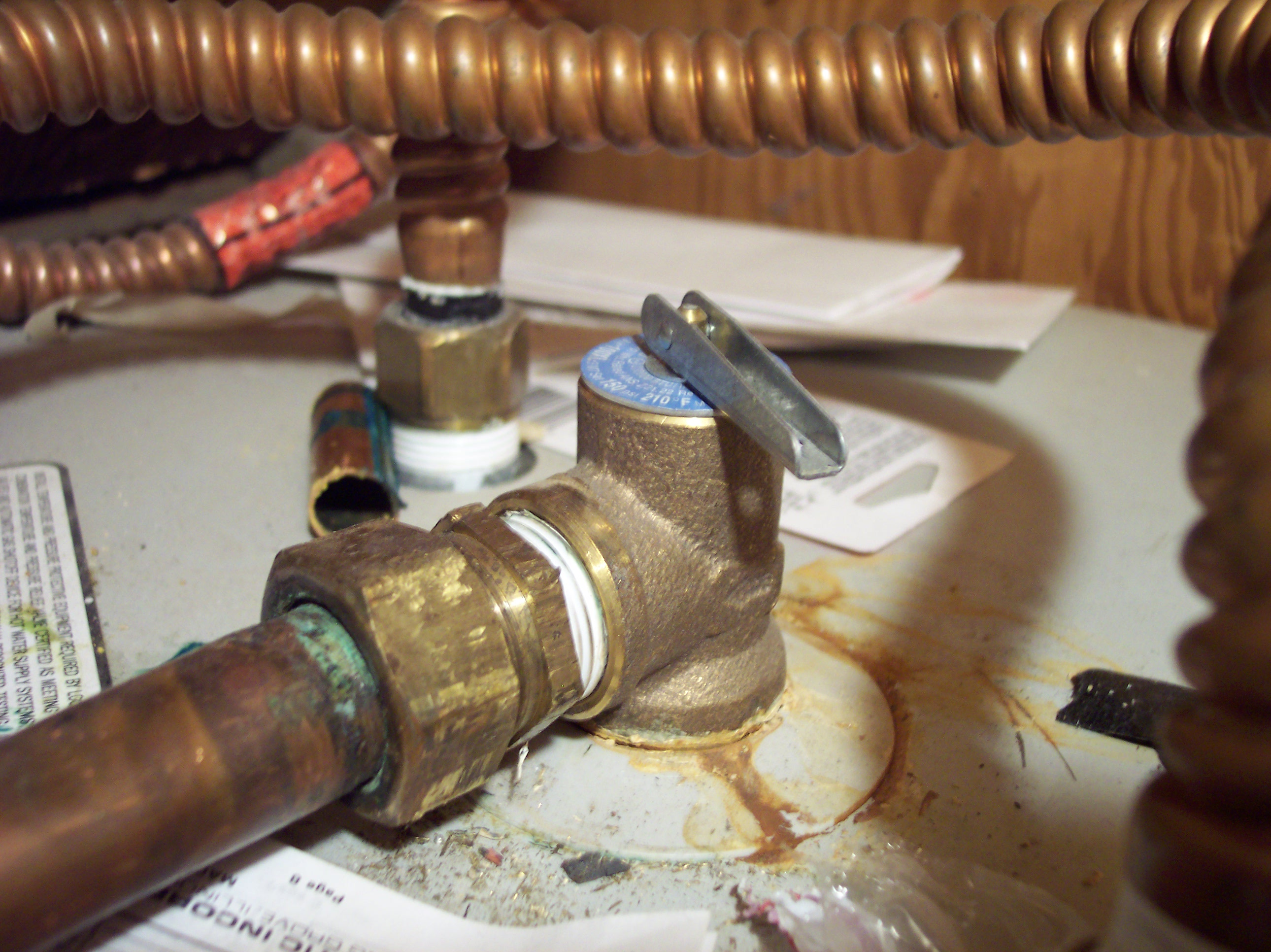 Picture of a temperature and pressure safety valve on a water heater. Self made.